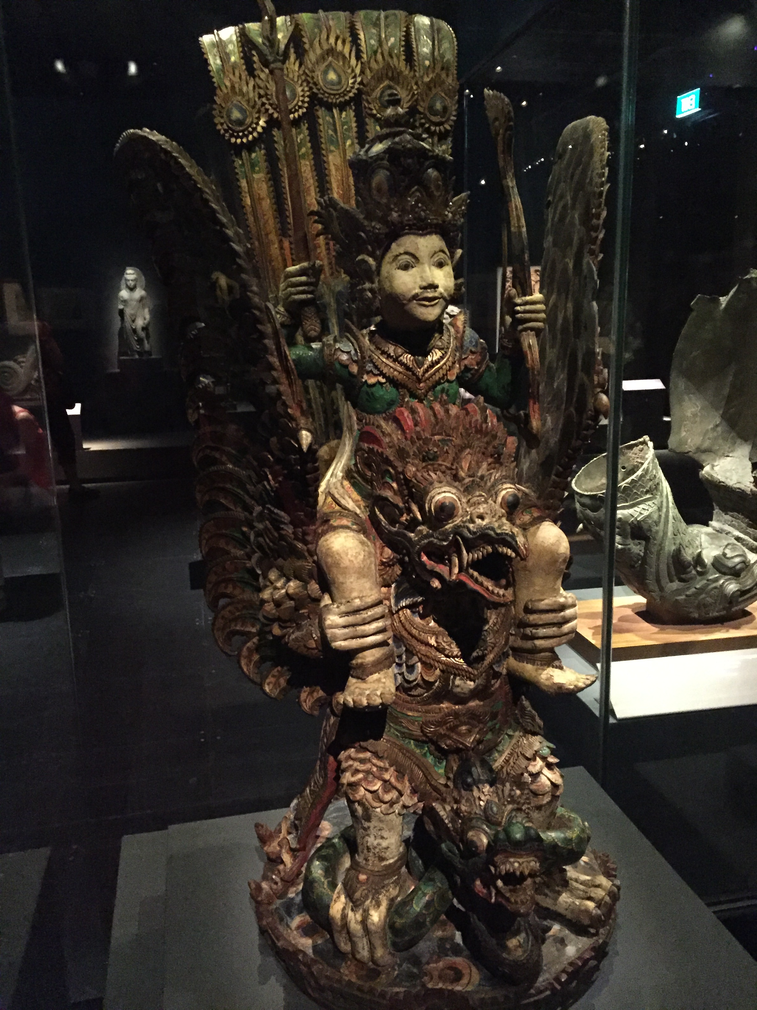 A wooden sculpture of Vishnu in his incarnation as Rama riding his mount Garuda (19th century, Bali, Indonesia; accession no. As1970,20.1). Such sculptures are used during festivals. It was on display in an exhibition called Treasures of the World from The British Museum at the National Museum of Singapore from 5 December 2015 to 29 May 2016.